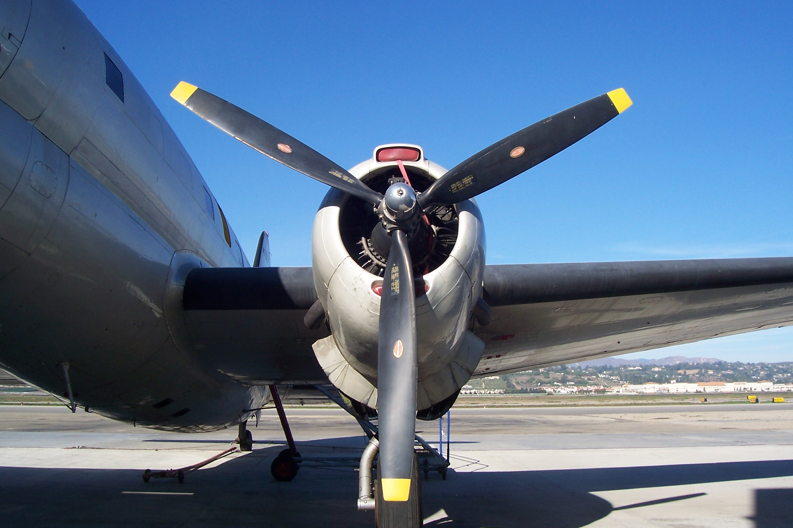 Propeller Curtiss C-46 Commando 'China Doll'